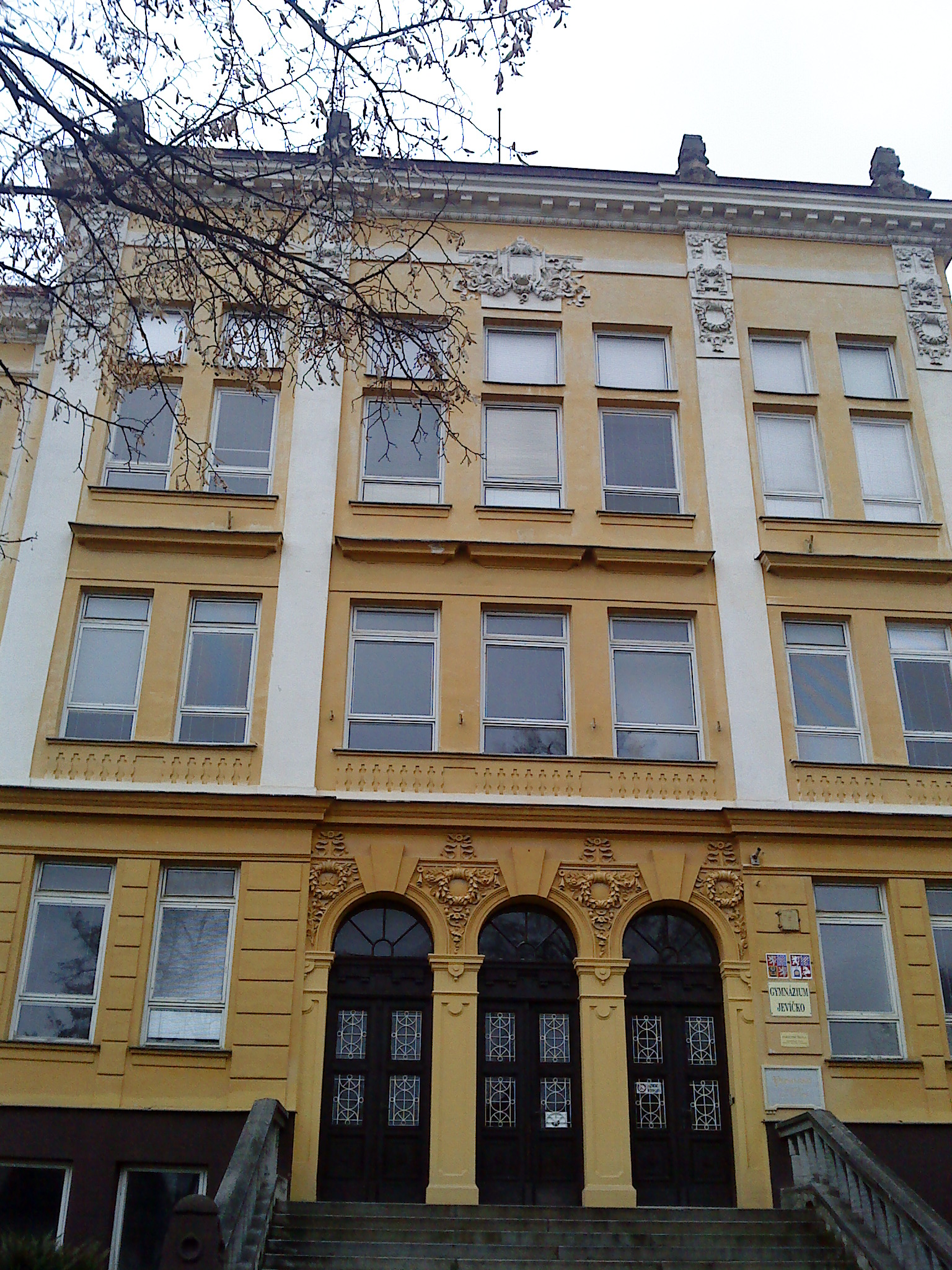 Jevíčko, Svitavy District, Czechia.